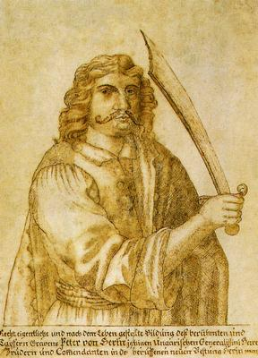 Petar Zrinski (1621-1671), Ban (viceroy) of Croatia